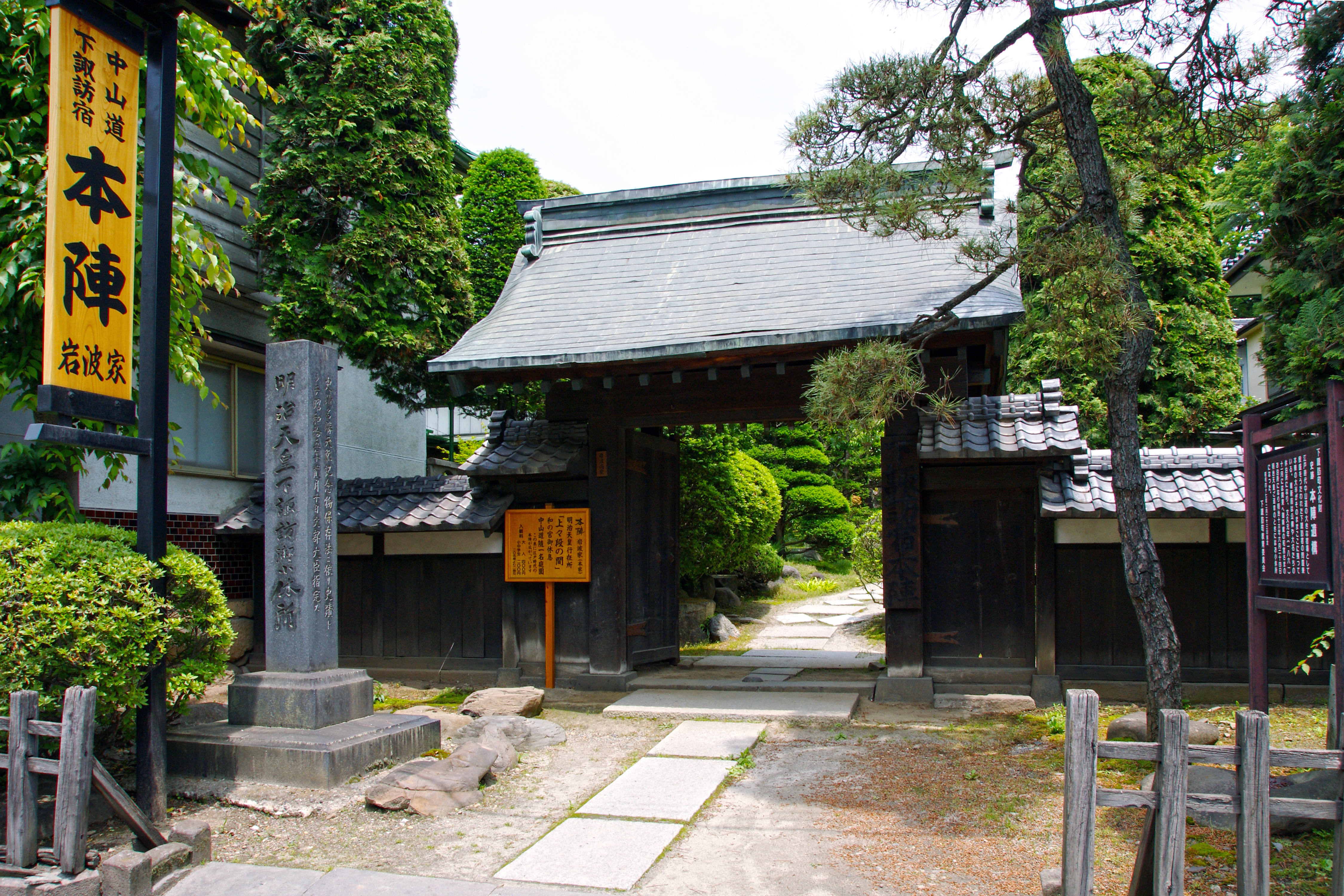 Shimosuwa-shuku Honjin in Shimosuwa, Nagano prefecture, Japan